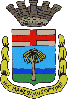 Coat of arms of the town of Arenzano, Italy